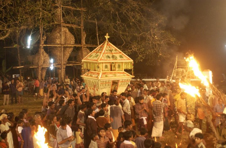 Ampalakkotta